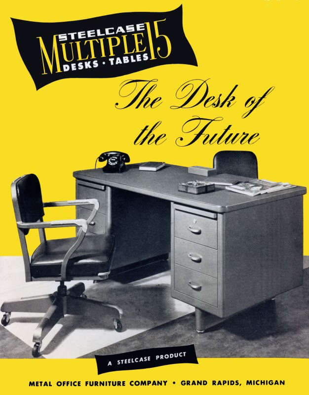 1946 dealer product brochure promoting the Multiple 15 desk line by Steelcase